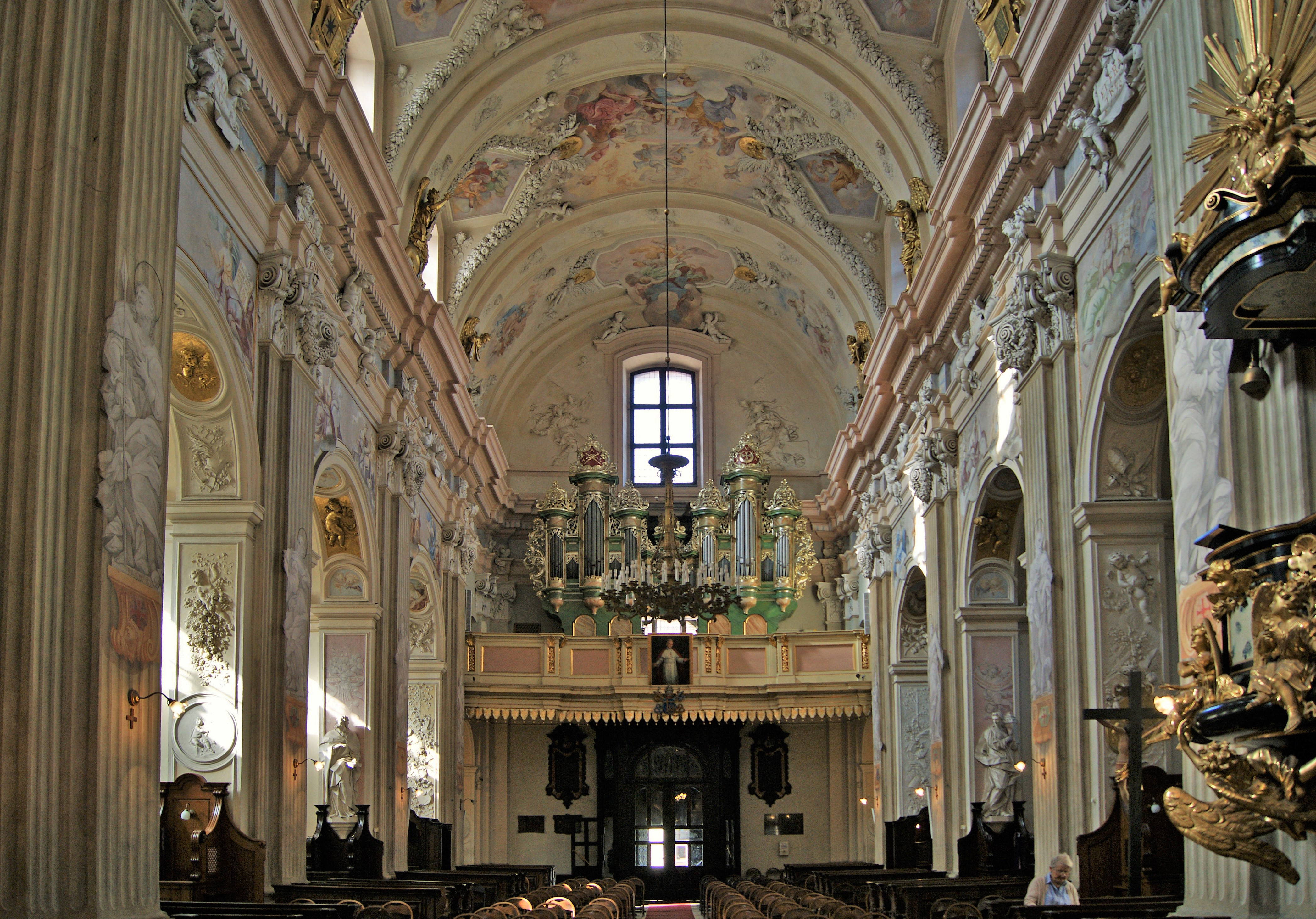 Church of St. Anne, interior-choir and organ, 13 sw. Anny street, Old Town, Krakow, Poland